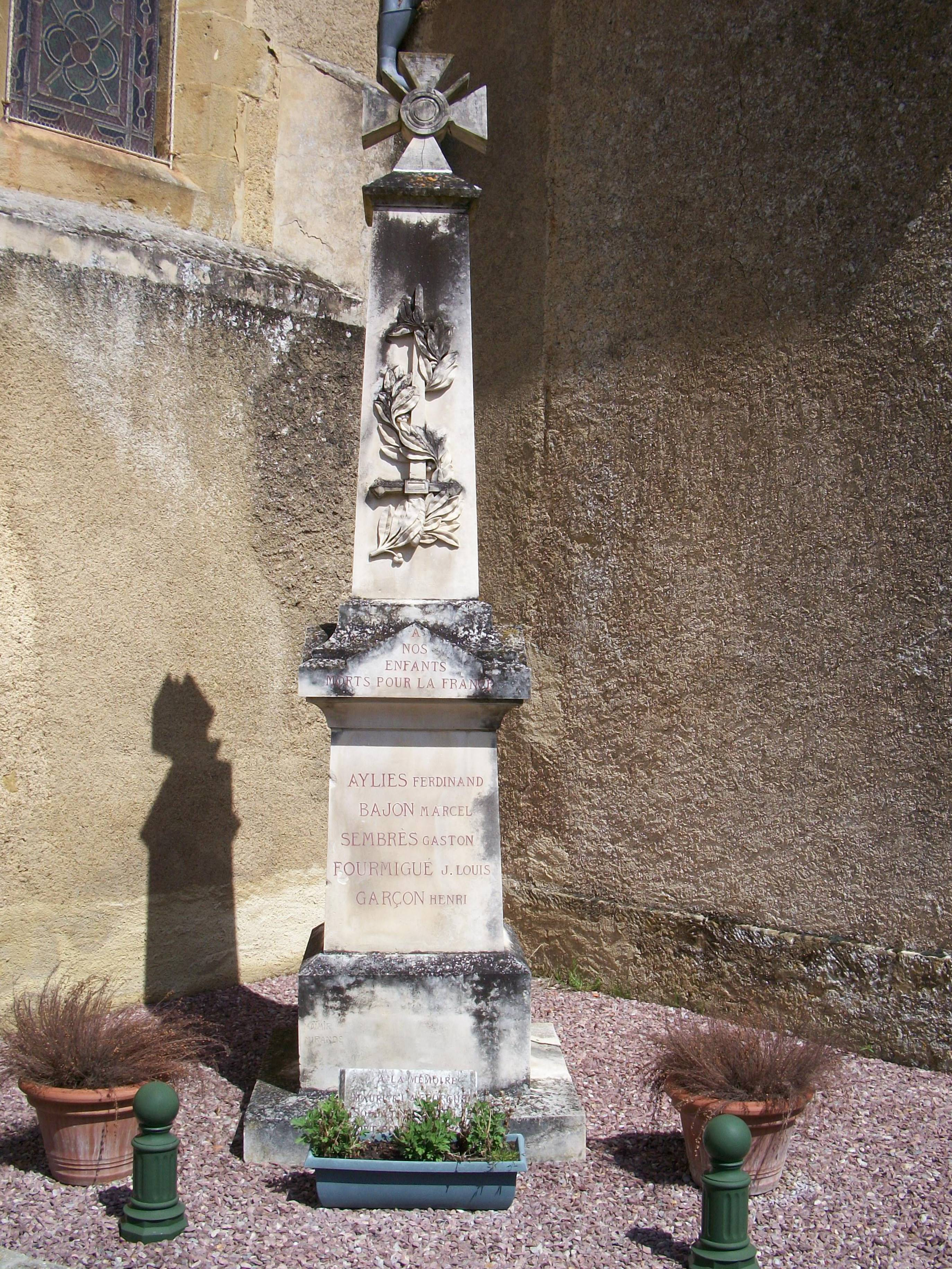 War memorial (Monclar-sur-Losse, Gers, France)